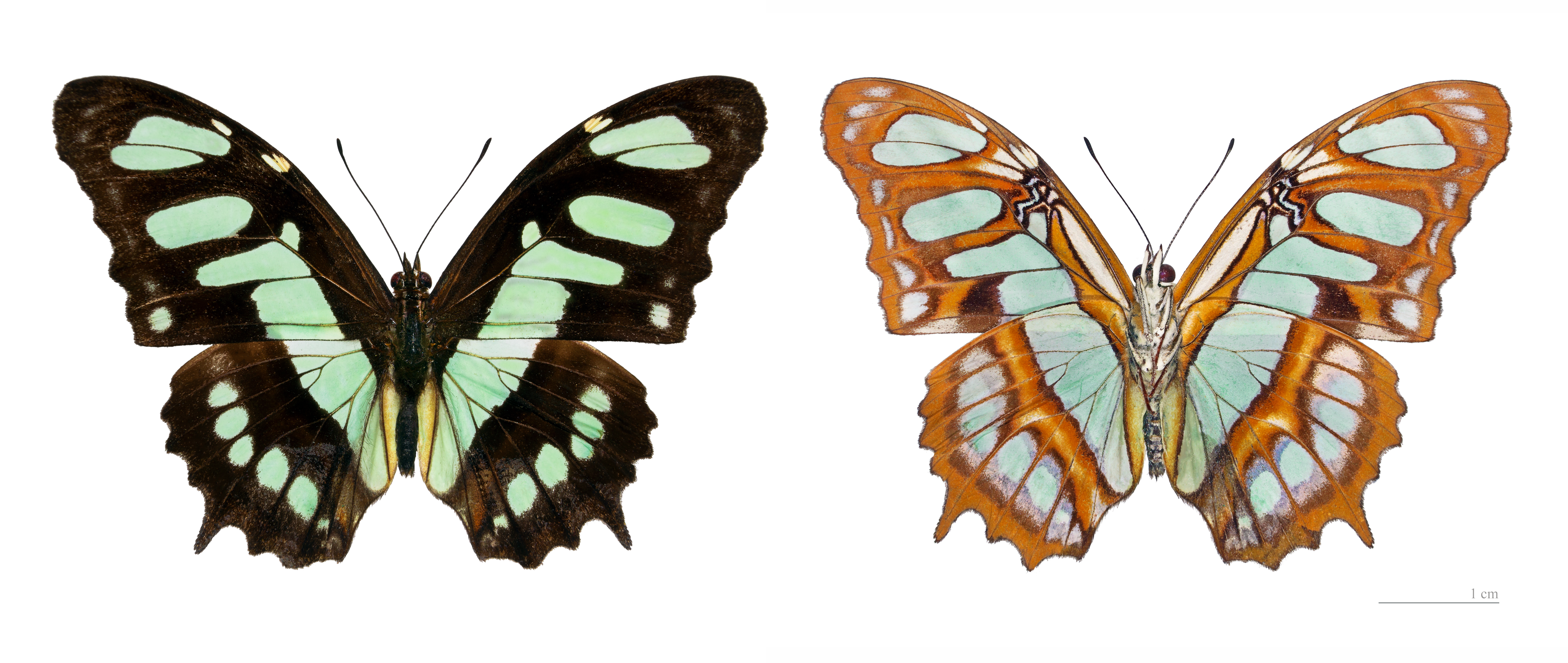 ♂ - Two views of same specimen Locality : Cacao, Crique Baguot, French Guiana